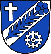 Coat of arms of Gernrode